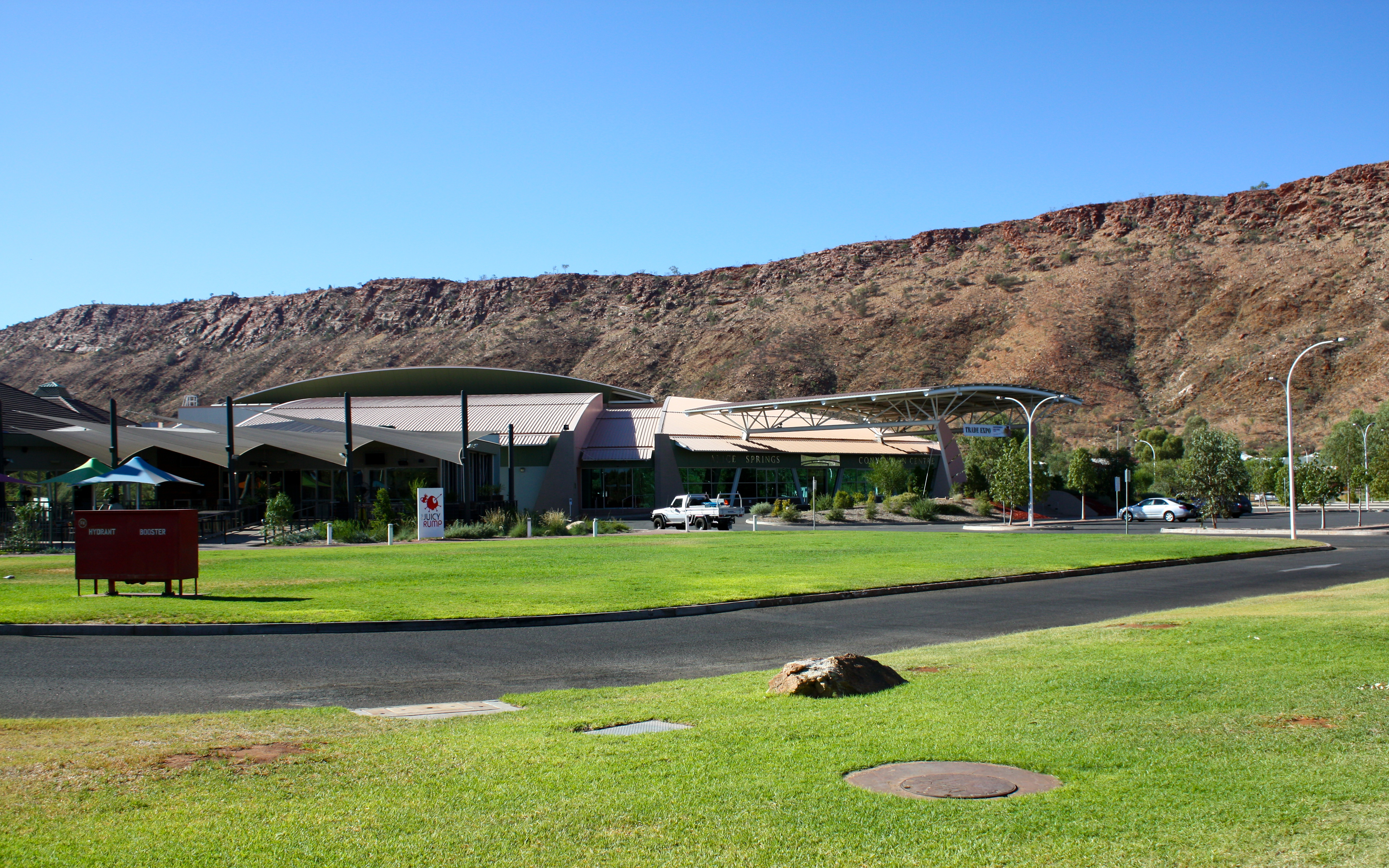 Alice Springs Convention Centre